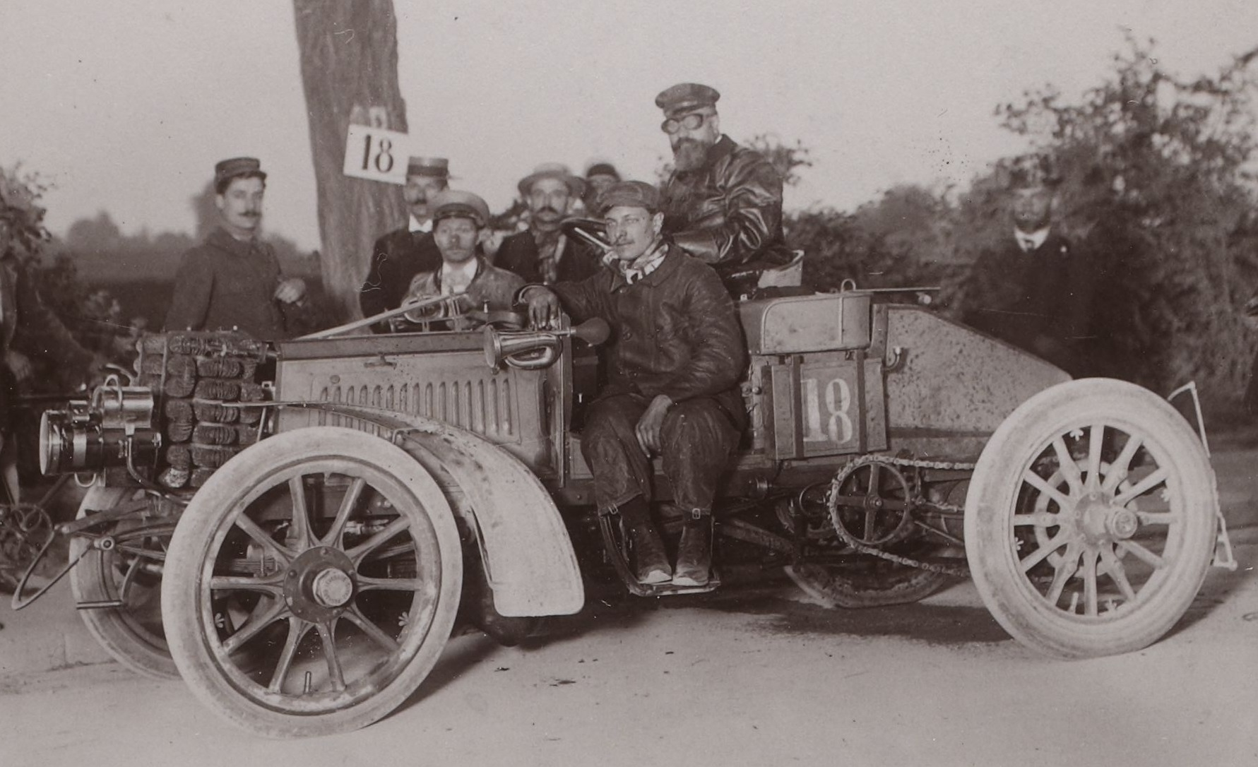 [Collection Jules Beau. Photographie sportive] : T. 14. Année 1901 / Jules Beau : F. 4v. [Paris - Berlin, Grande course annuelle de l' Automobile Club de France, Course de vitesse, 27 -29 juin 1901]